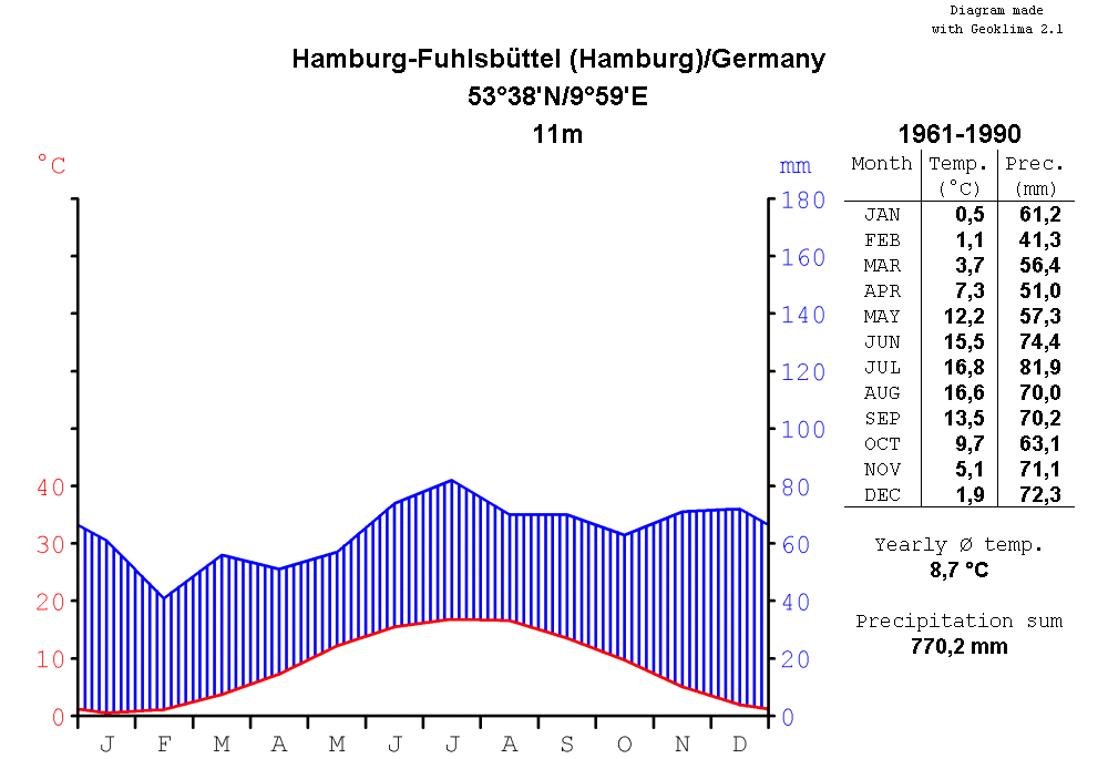 climate chart of Hamburg-Fuhlsbüttel, Hamburg, Germany, for the period of time from 1961 to 1990, in the format by Walter and Lieth, metric, °Celsius and millimeters, chart made with Geoklima 2.1, label in English